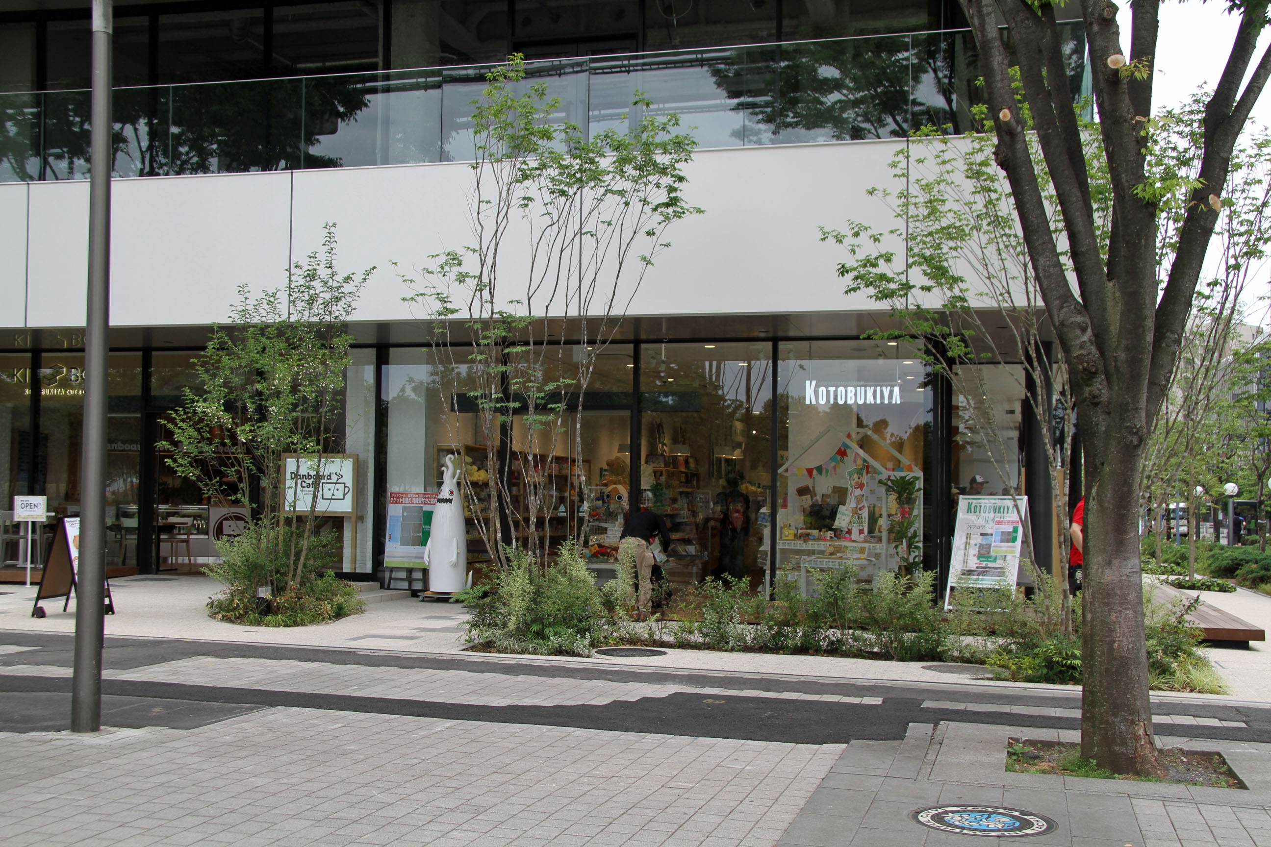 Kotobukiya Tachikawa Head Shop